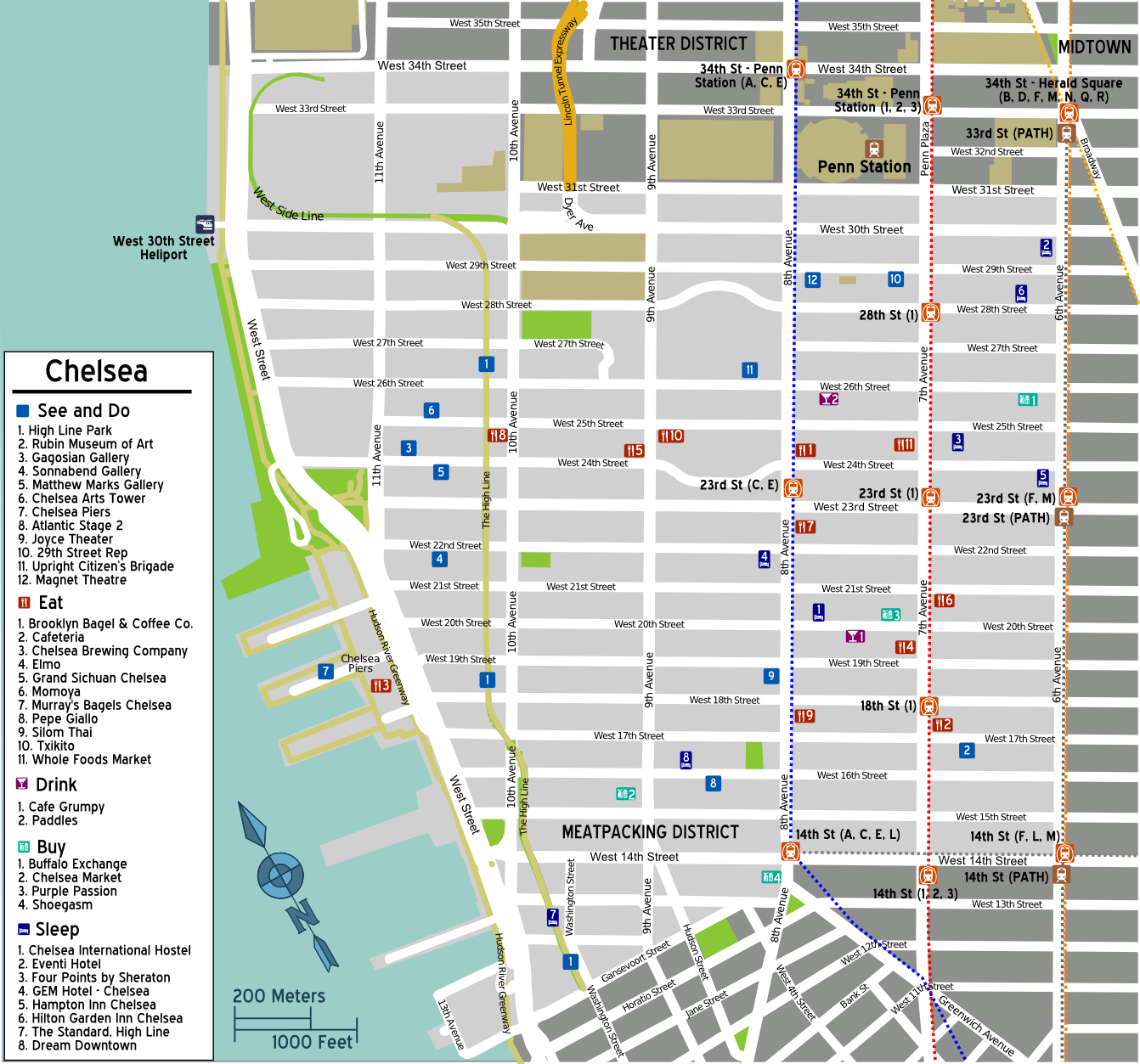 Chelsea, Manhattan Map.